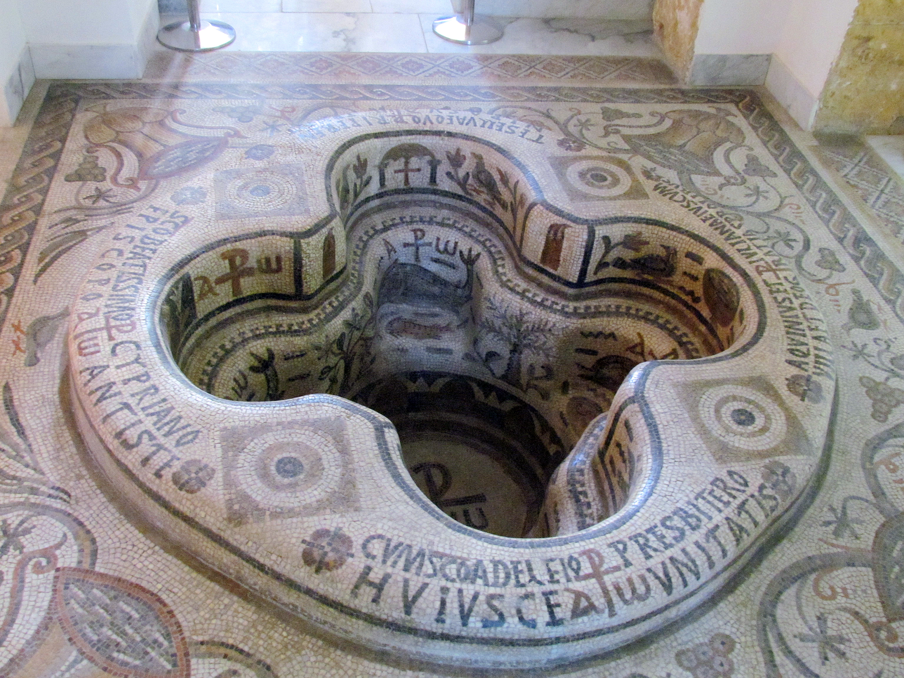 Baptistery of Kélibia (Bardo Museum)